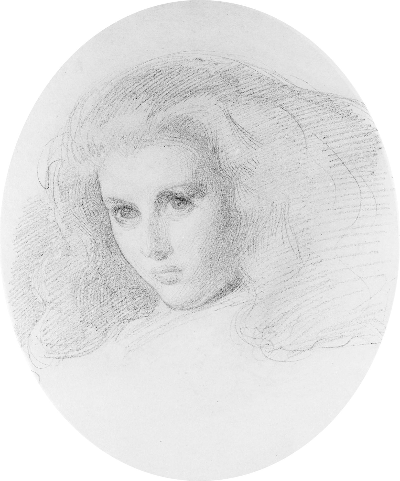 Edith Liddel pencil oval 25 cm ca 1864